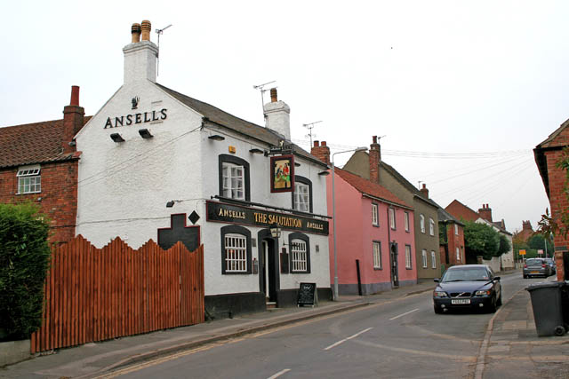 Main Street, Keyworth